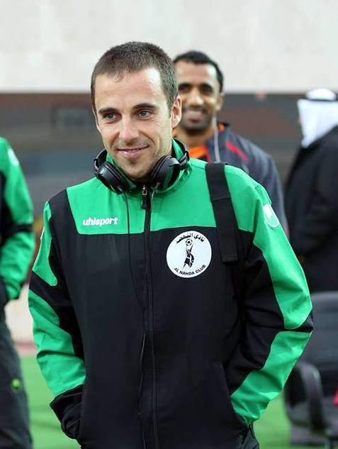 Manuel José Alves Ramos before a game in the GCC Club Cup against Al Nasr SC of Kuwait. 3 February 2014 Ali Sabah Al-Salem Stadium, Kuwait Photographer email id